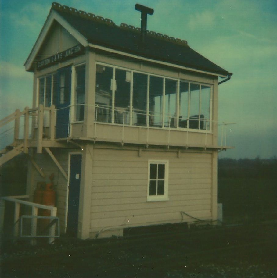 Photo taken by Lionel Allen, Signalman at Claydon until its closure